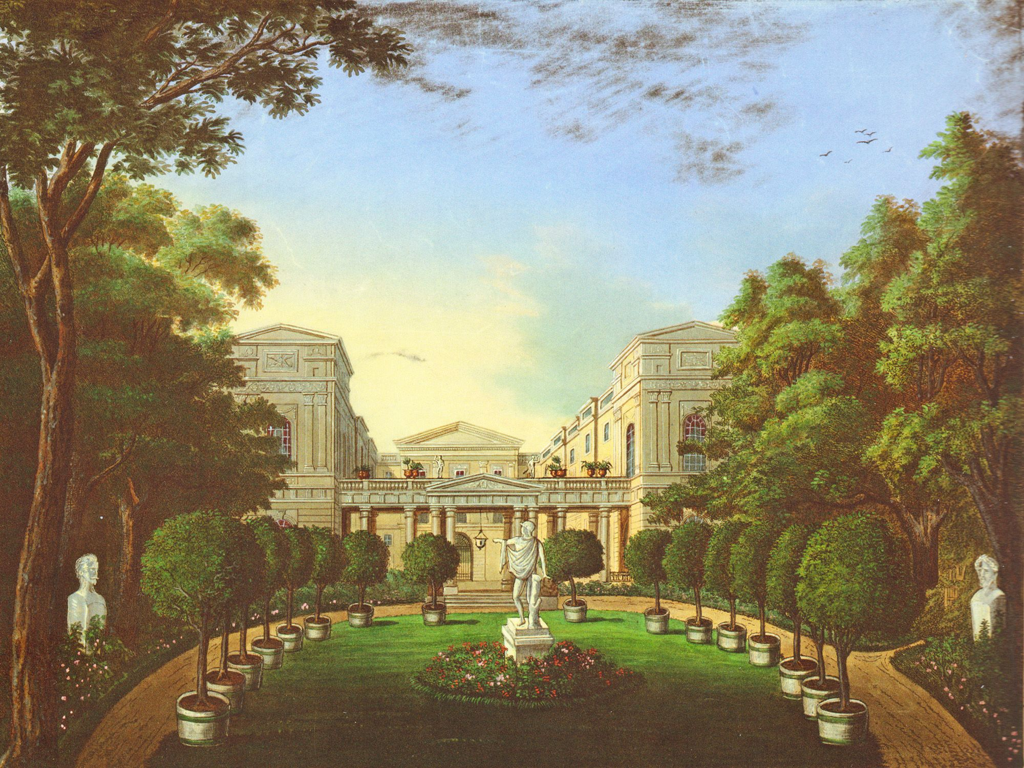 Das Löhrsche Haus in Leipzig von der Gartenseite. Kolorierte Radierung